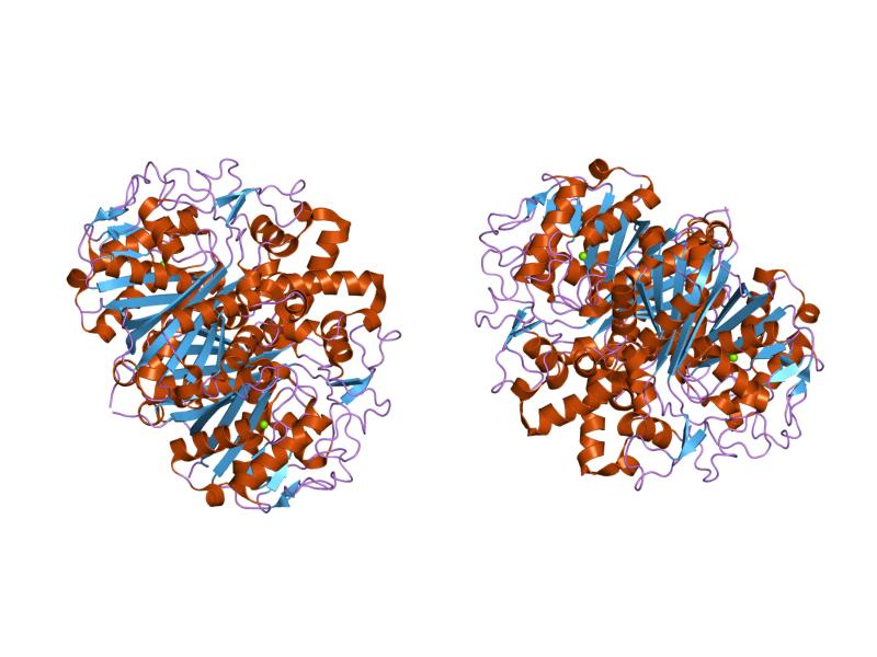 Cartoon representation of the molecular structure of protein registered with 1oxh code.